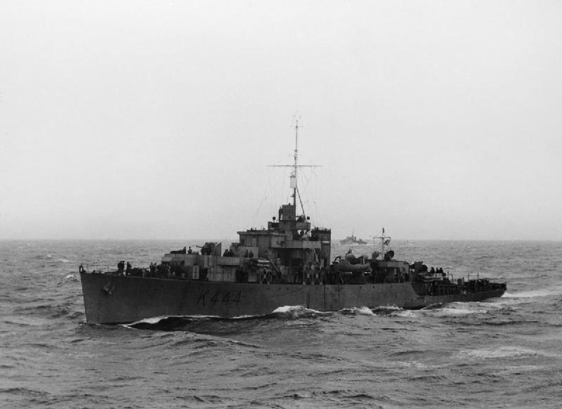 Photograph of River class frigate HMCS Matane.